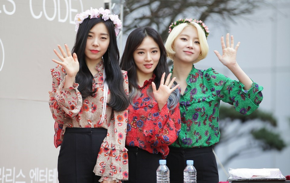 Ladies' Code at a fansign in Shinsegae, March 19, 2016.